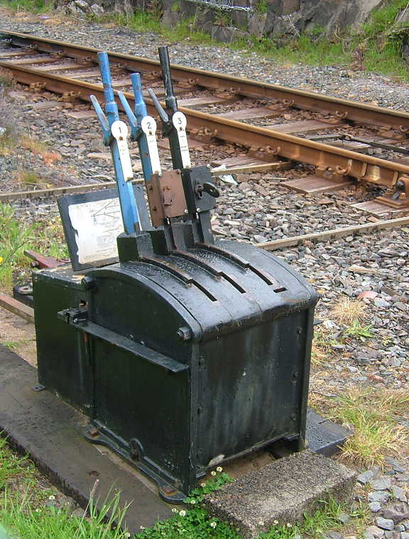 Original digital image Signalhead 23:27, 21 January 2007 (UTC)